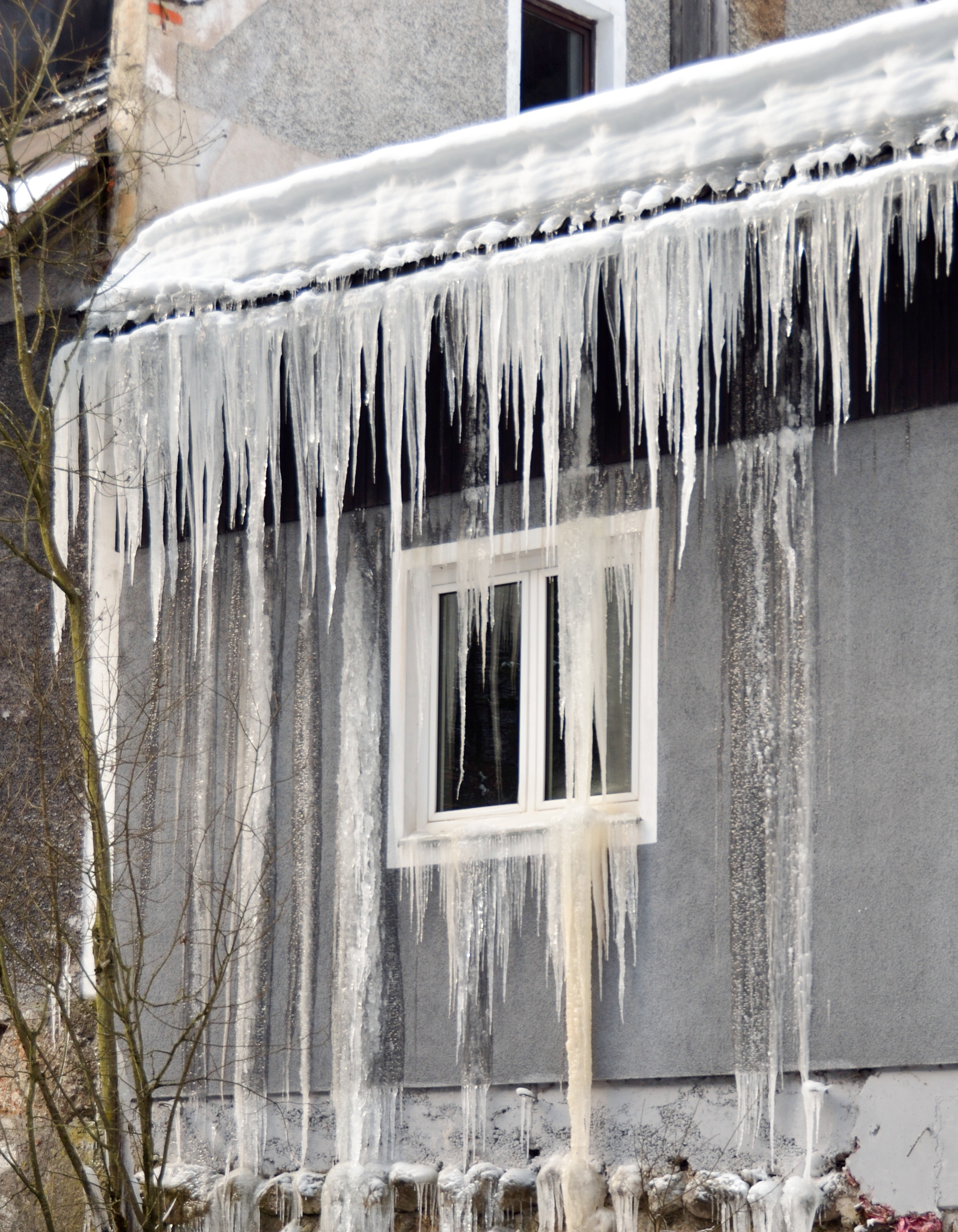 Water leakage, due to an ice dam on the roof. Heat from the building melts the snow on the roof. The meltwater runs to the edge, which is cold, where it freezes and forms an "ice dam". The ice dam backs up further meltwater coming towards the edge, which, in turn, can leak into the roofing material. Here, the leaks have flowed inside the outside wall and has leaked out, again, around the window.